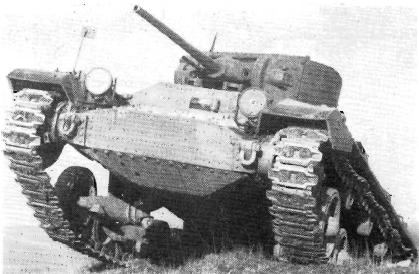 Valentine tank, showing the V-shaped under side of its hull and arrangement of suspension unit